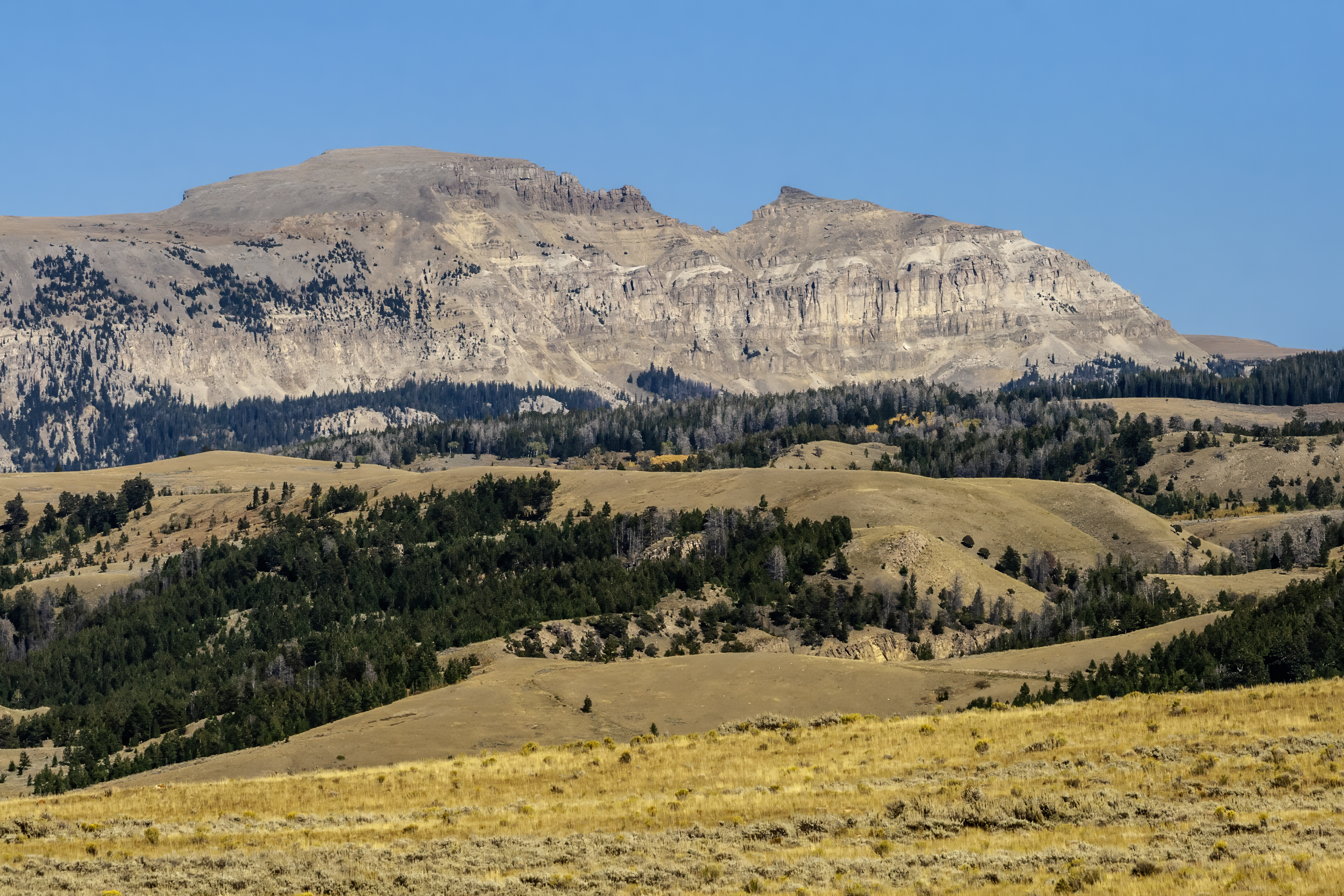 Sheep Mountain, near Jackson, Wyoming. Also known as the Sleeping Indian.